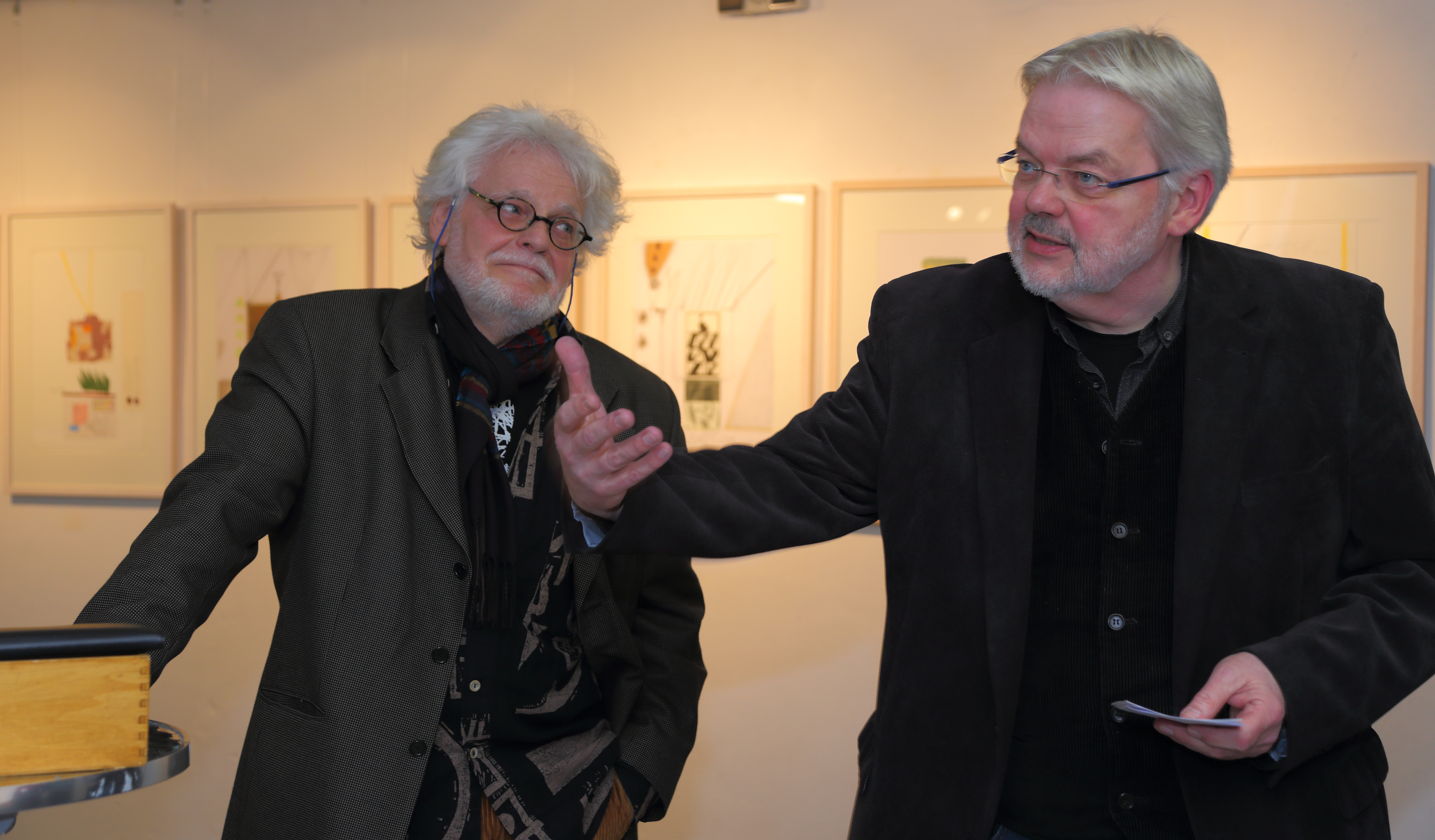 Vernissage of the art exhibition „Dehydriert in der Alten Honigfabrik“ by Wilfried Bohne at „Alte Honigfabrik“ in Ibbenbüren, Kreis Steinfurt, North Rhine-Westphalia, Germany. Here writer Alfred Cordes (right) in conversation with artist Wilfried Bohne.